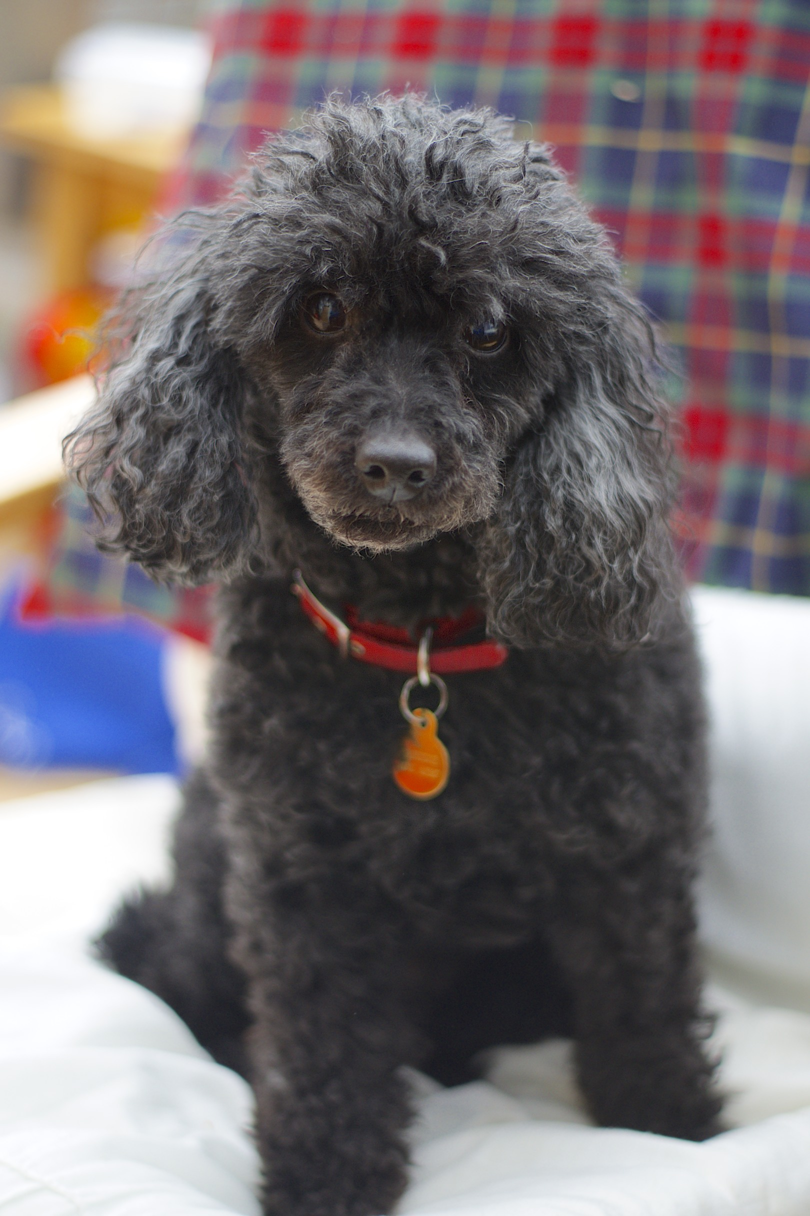 Our little poodle. He is ten years old now so in doggie terms he is middle aged - like me really. Except he does not have a middle aged spread - so not really like me at all! Taken with the NexF3 and the Olympus Zuiko 50mm f/1.8 lens